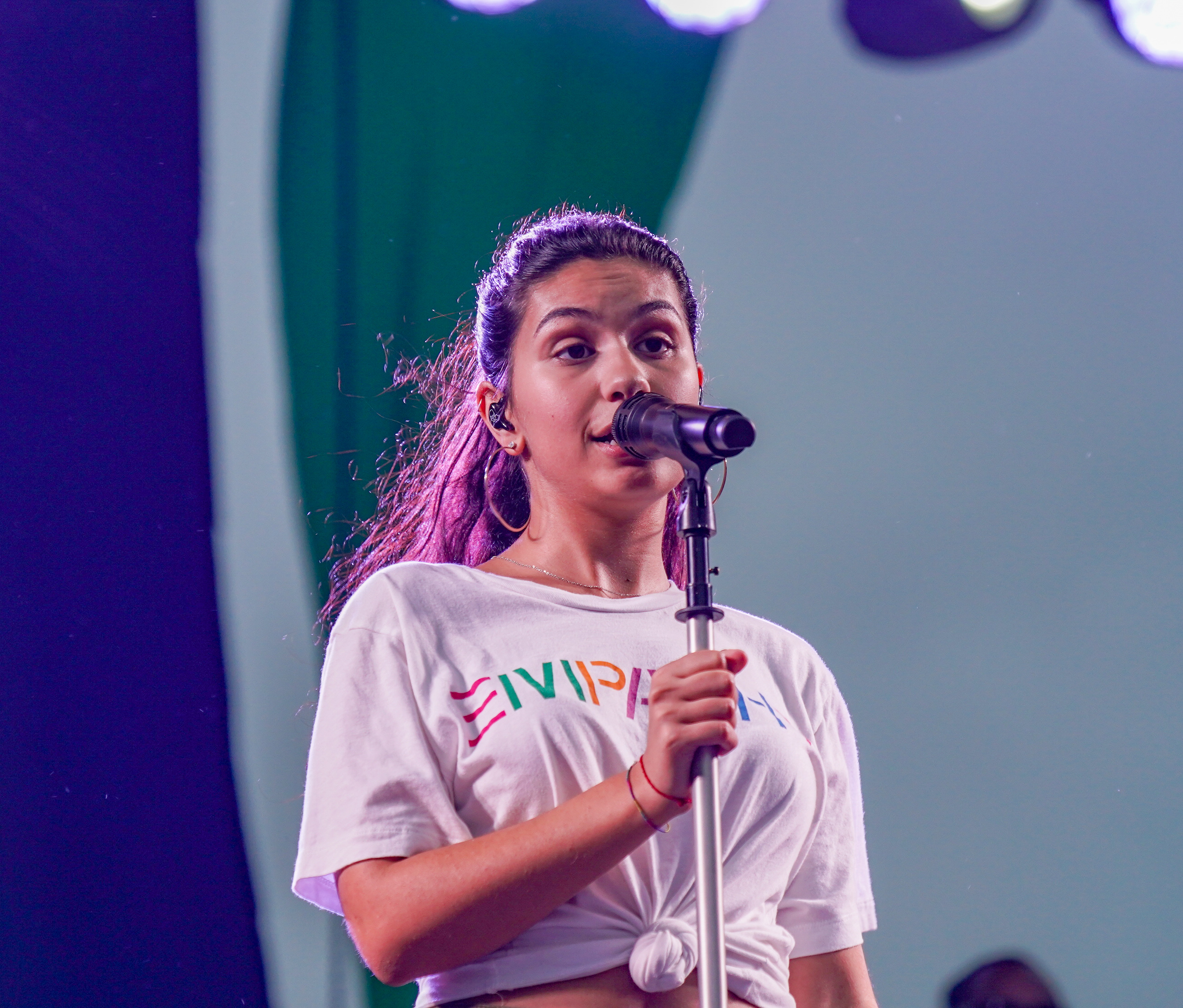 Honored to be part of the media team capturing the performance of Alessia Cara at the 2018 Capital Pride Concert, Washington, DC USA